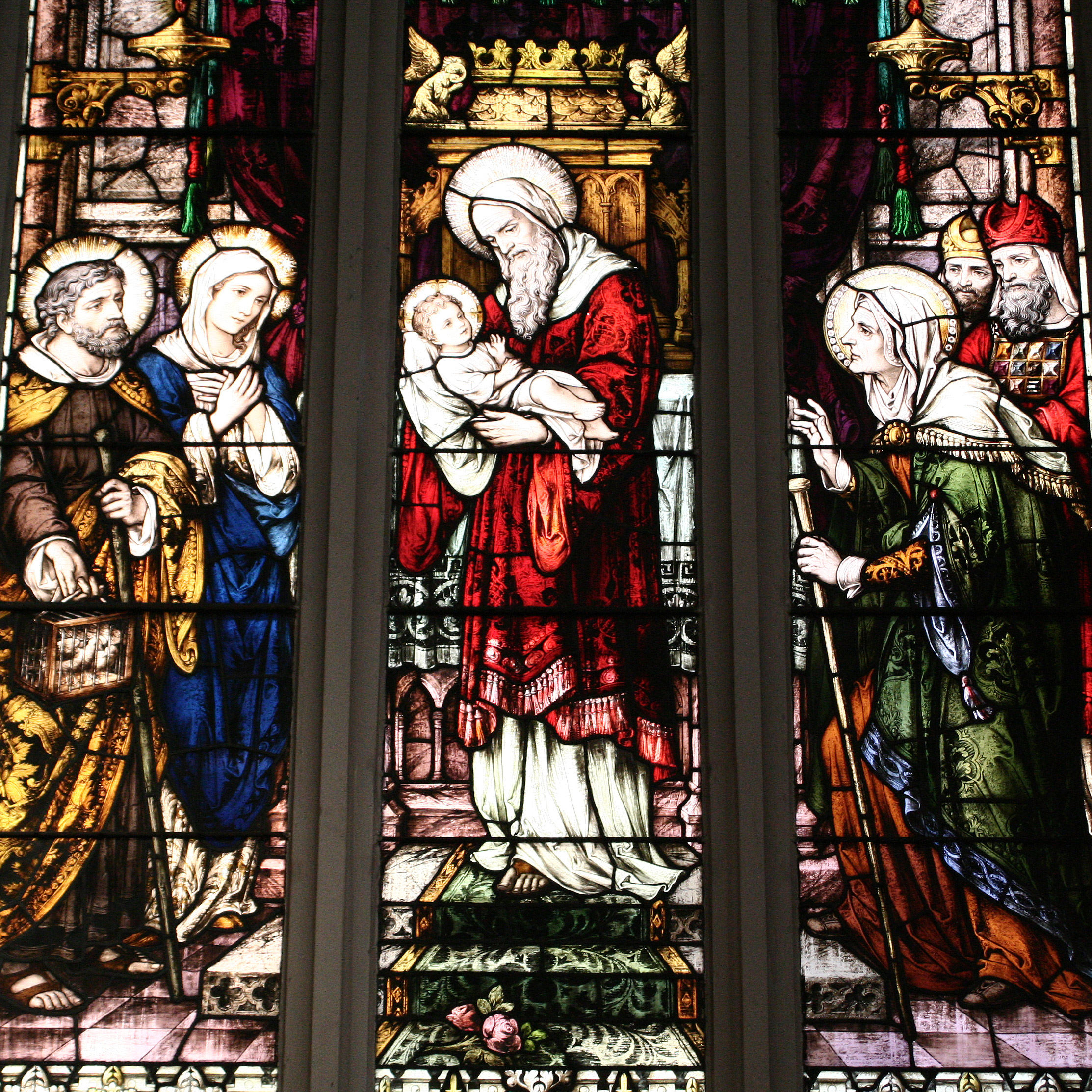 Presentation at the Temple. Stained glass window in St.Michael Cathedral. Toronto. Author: Mayer Co of Munich